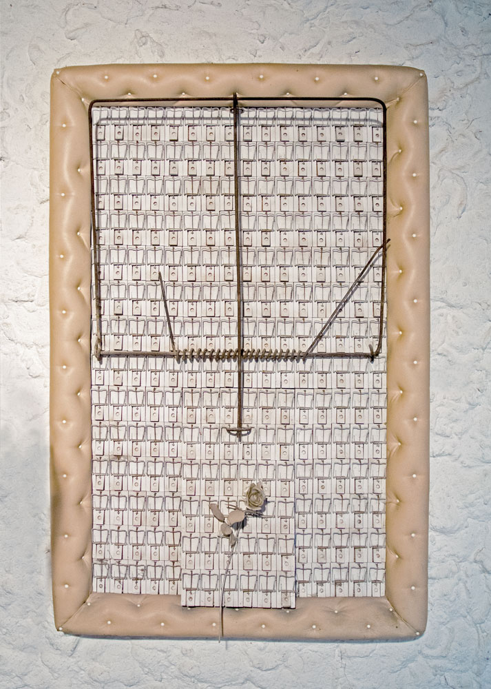 Lubo Kristek: Soundproof Aesthetic of Luxuriety, 1976, assemblage, 152 × 101 cm